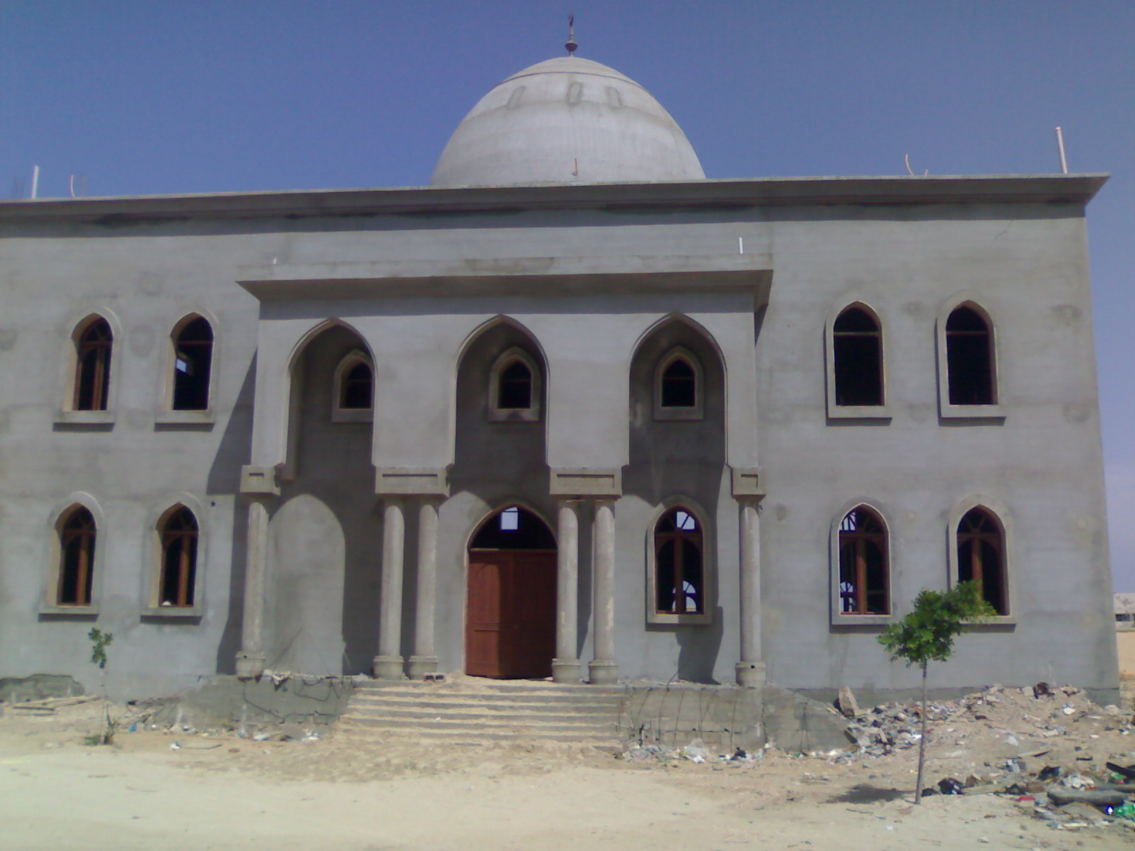 Al Madina al Monawara mosque, Benghazi.